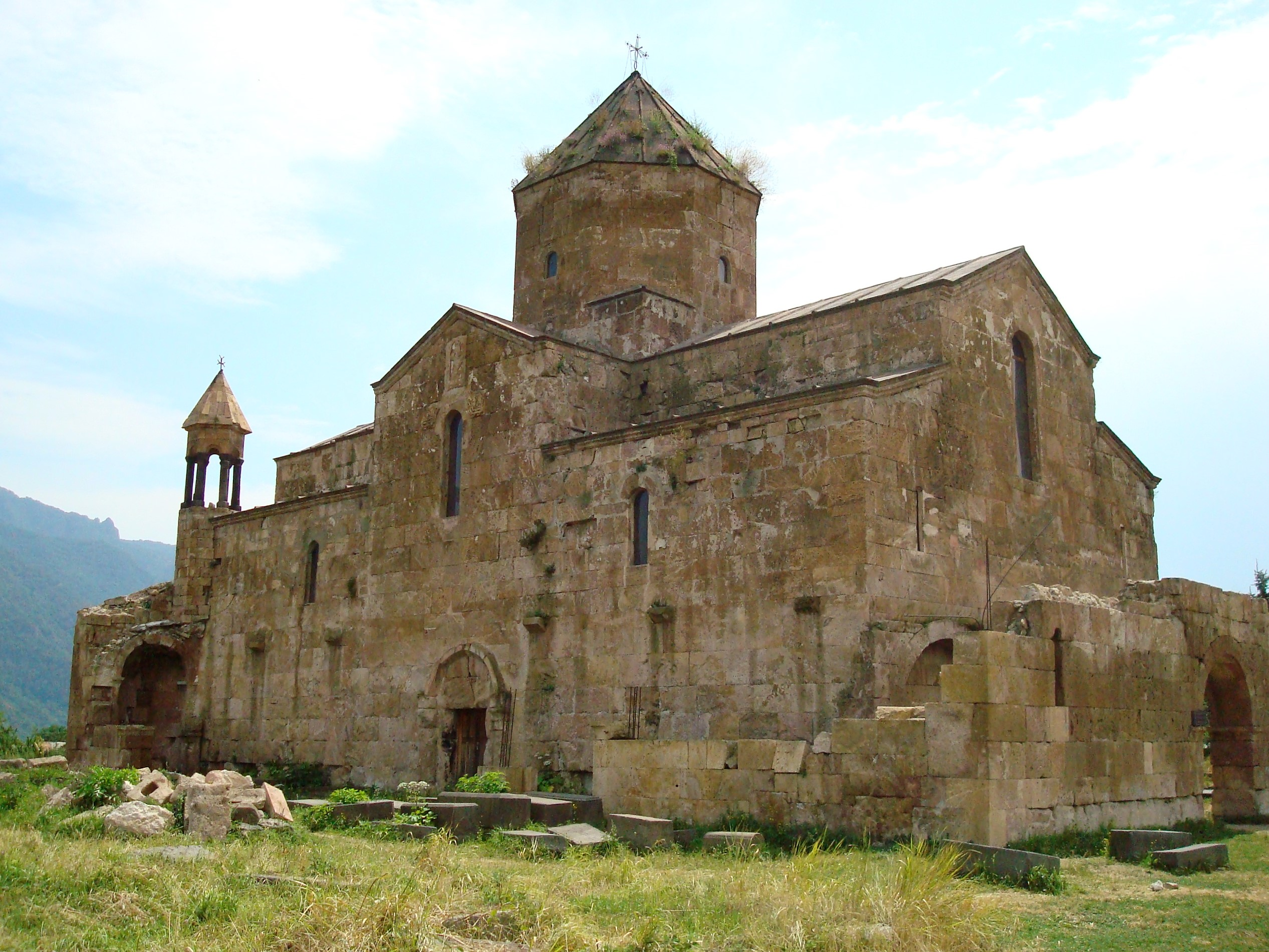 Odzun Church